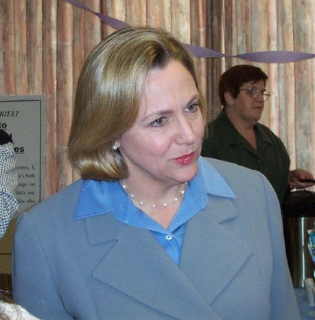 Shannon O'Brien Shannon O'Brien: During one of her many trips to Lowell during the 2004 gubernatorial campaign, Shannon O'Brien visits seniors at the Lowell Housing Authority's Archambault Towers community room. Camera: Kodak DX3600 License on Flickr (2012-03-04): CC-BY-2.0 Flickr tags: MA-05, Lowell-pol, Lowell